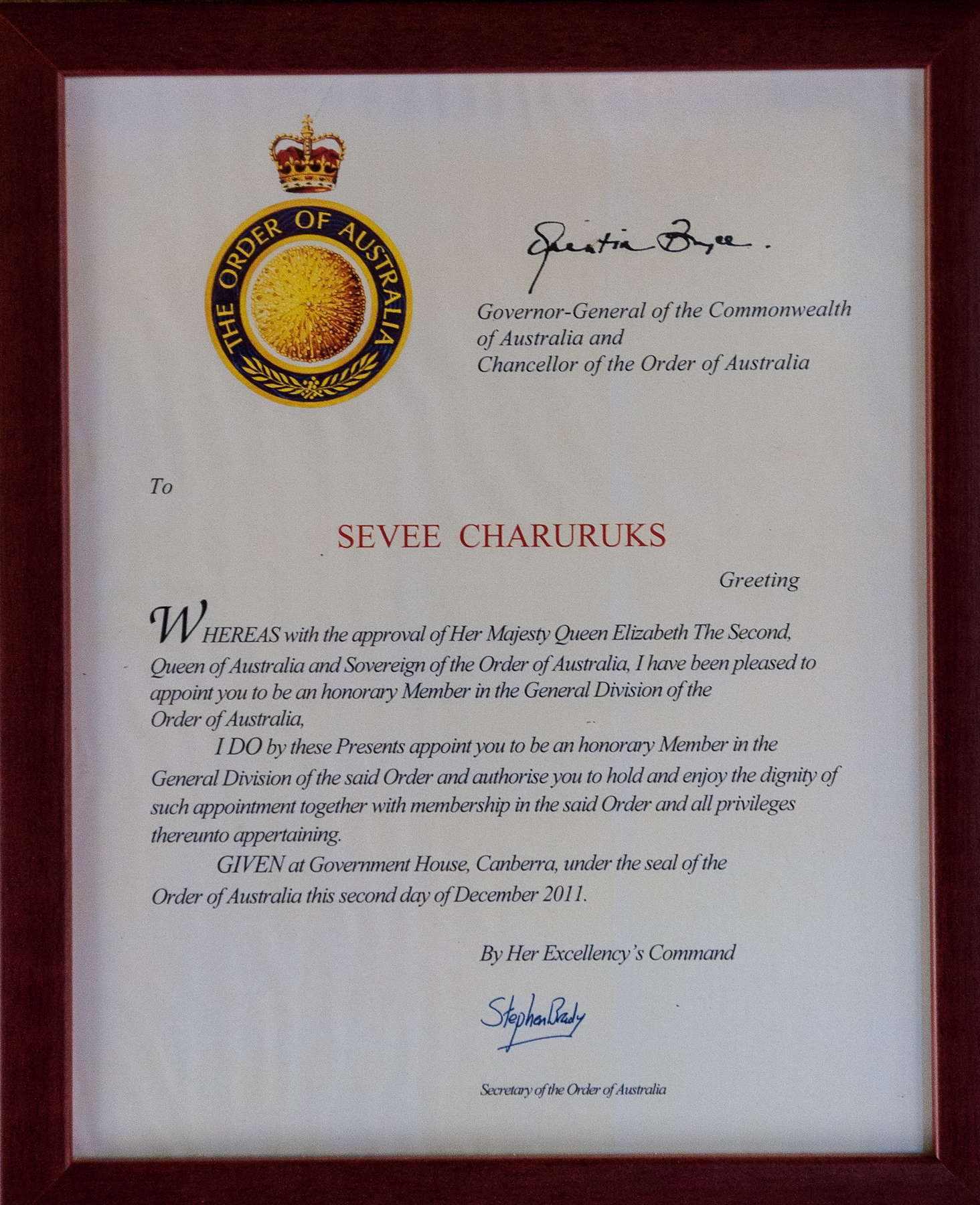 Kundasang, Sabah: The Kundasang War Memorial and Gardens; Sevee Charuruks Certificate of Appointment to AM